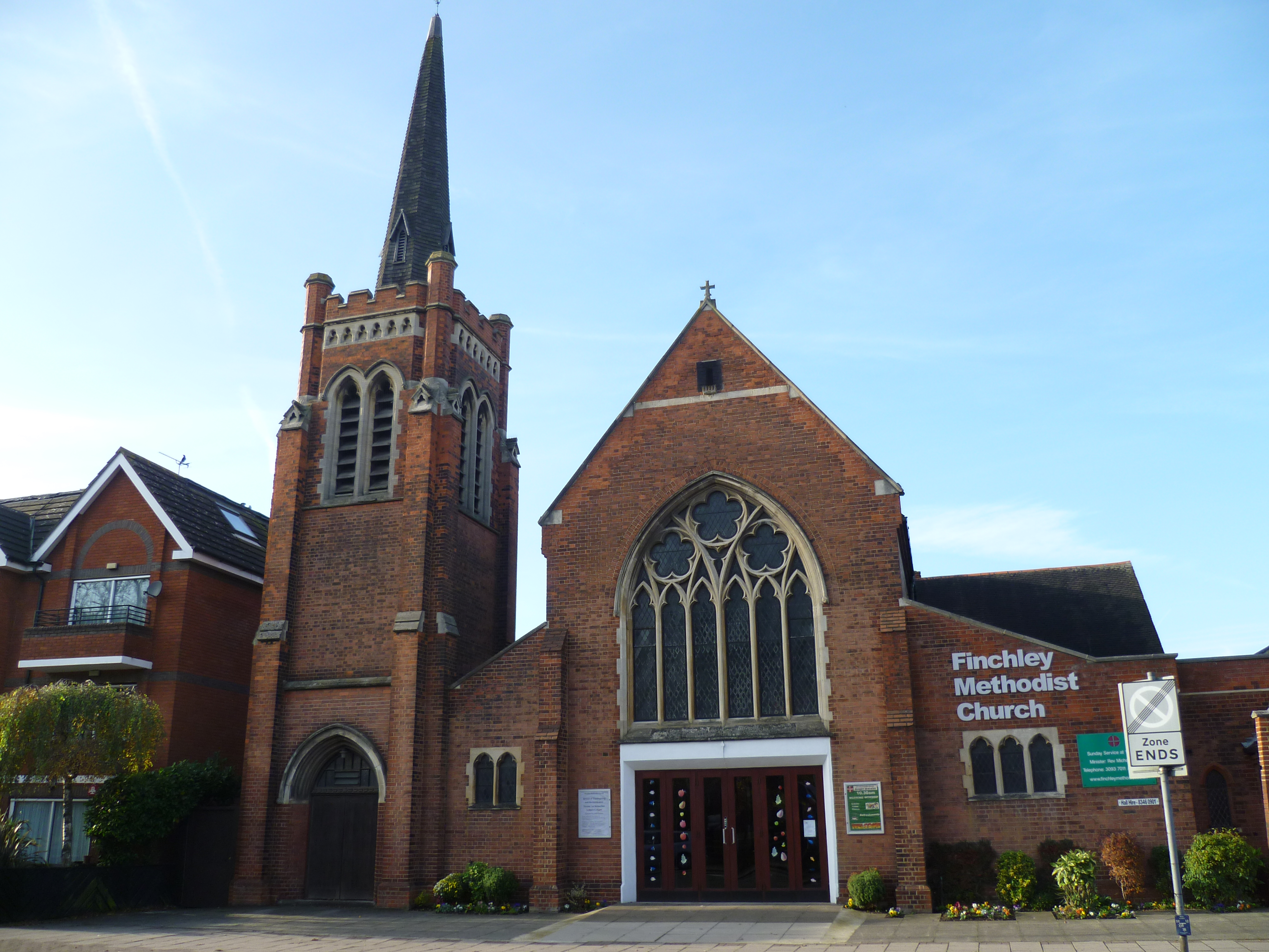 Finchley Methodist Church